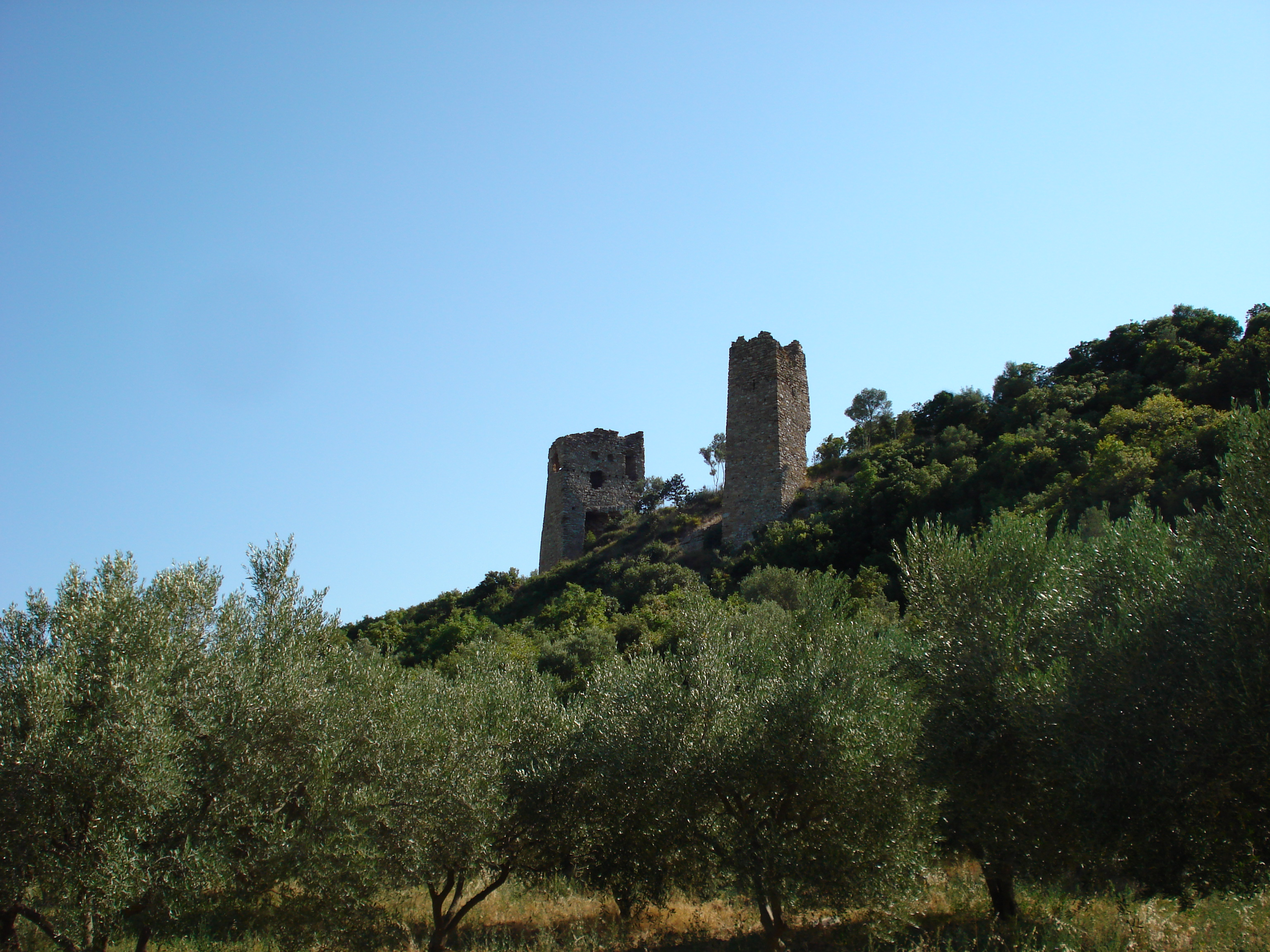 The remains of Avandas castle outside the city of Alexandroupoli, Greece.